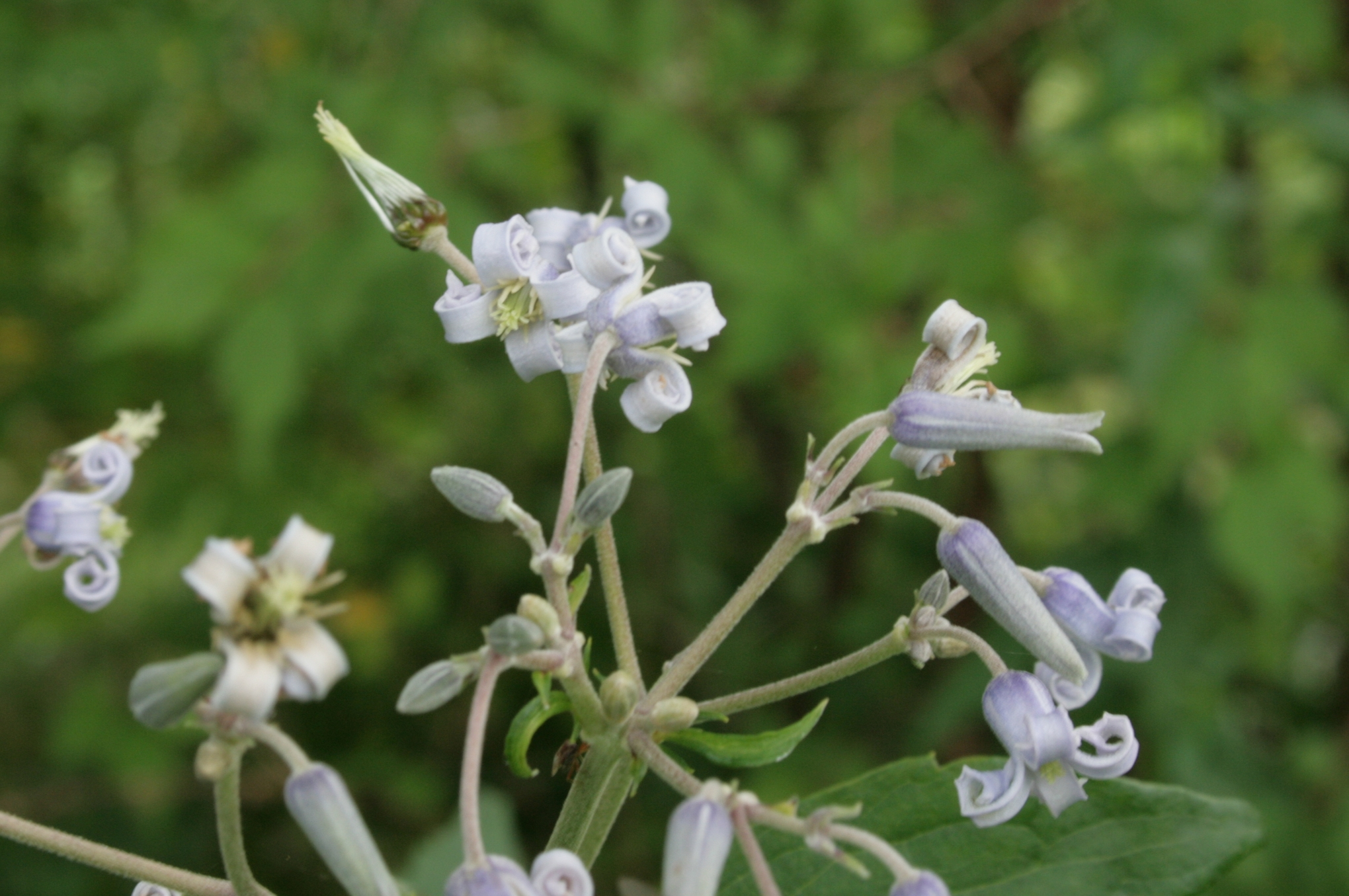 Clematis stans: Flowers.